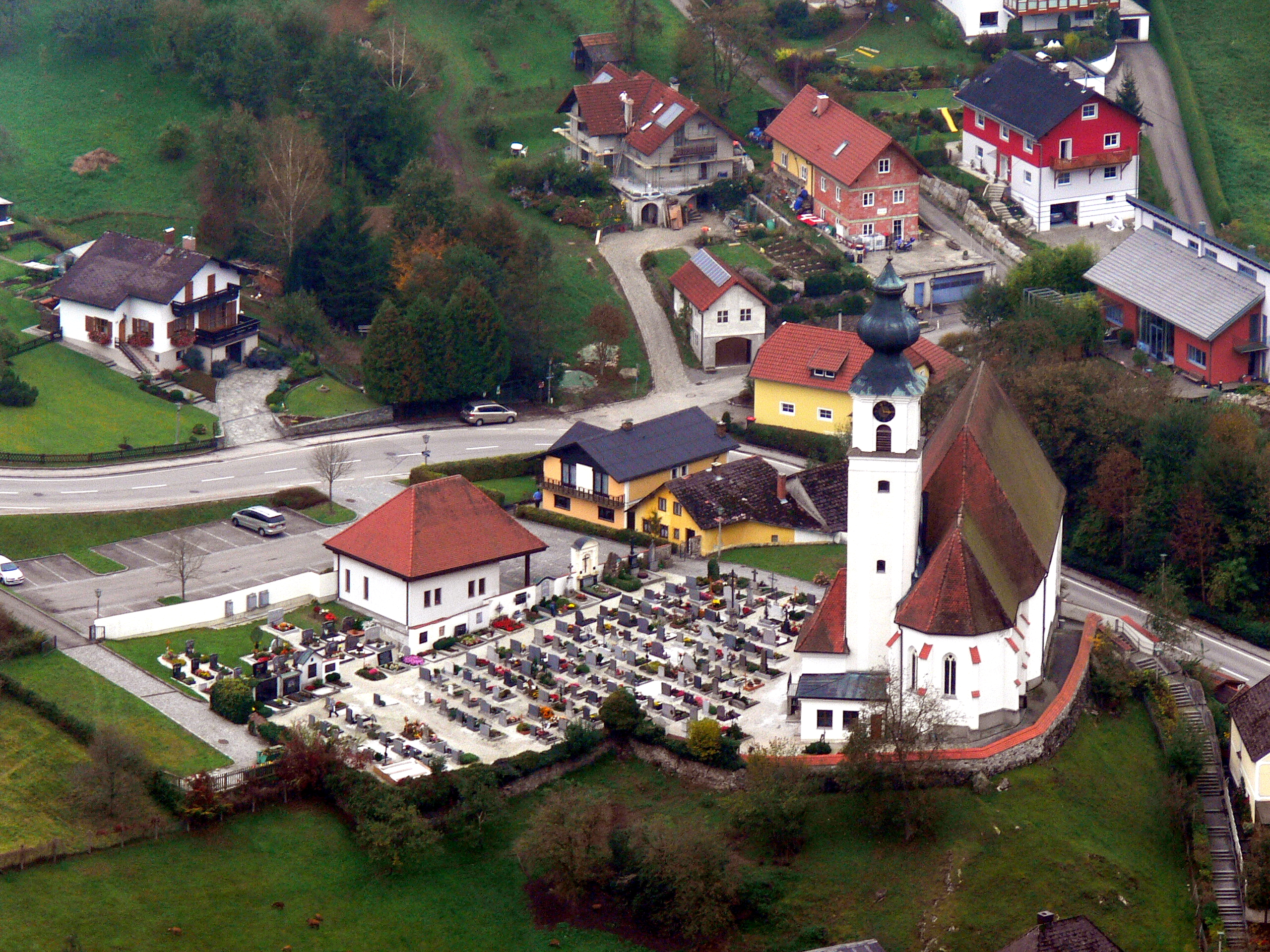 Engelhartszell ( Upper Austria ). Parish church of the Assumption of Mary and cemetery.